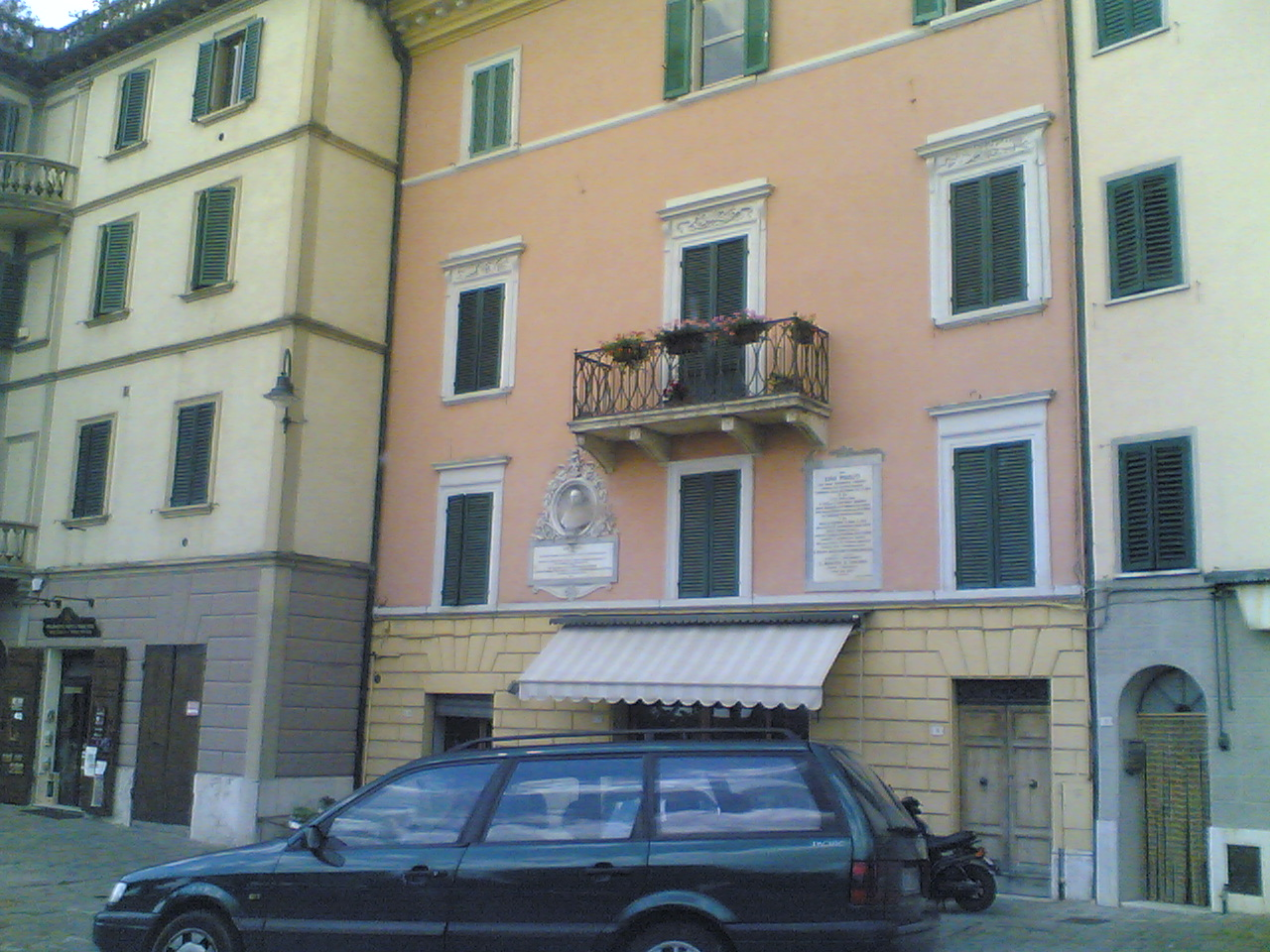 House of Ciro Pinsuti in Sinalunga, Italy